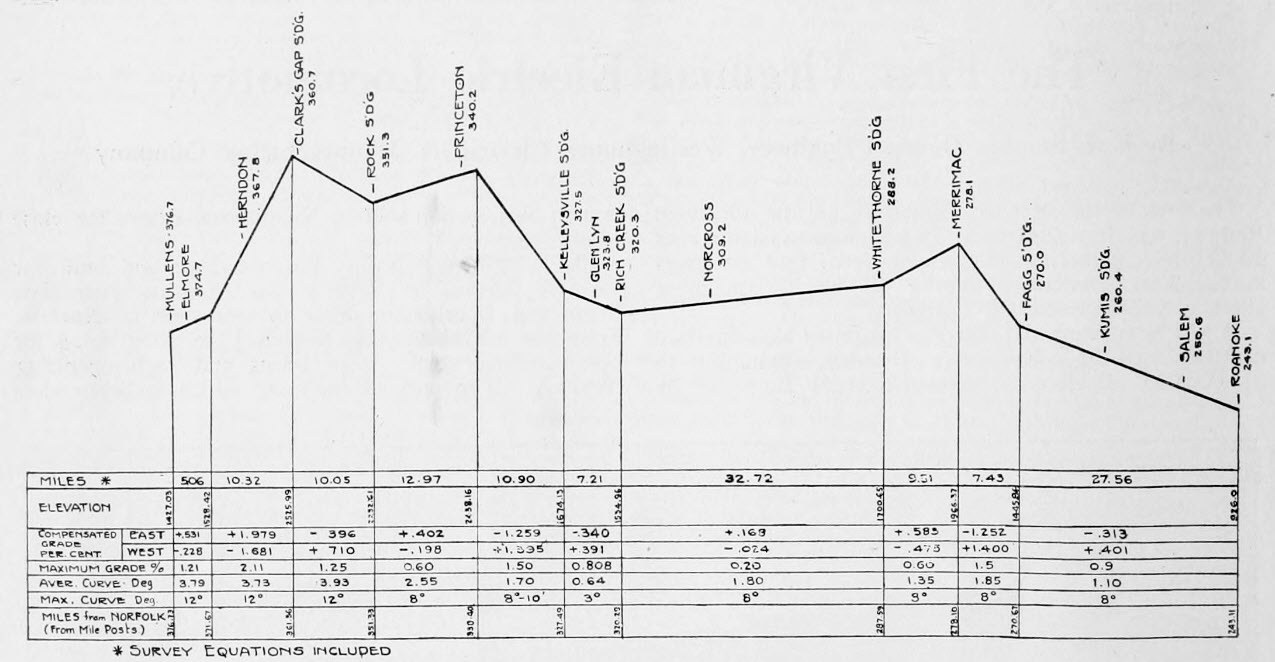 Profile of Viginian Railway Electrified Line from Mullens to Roanoke, Va.